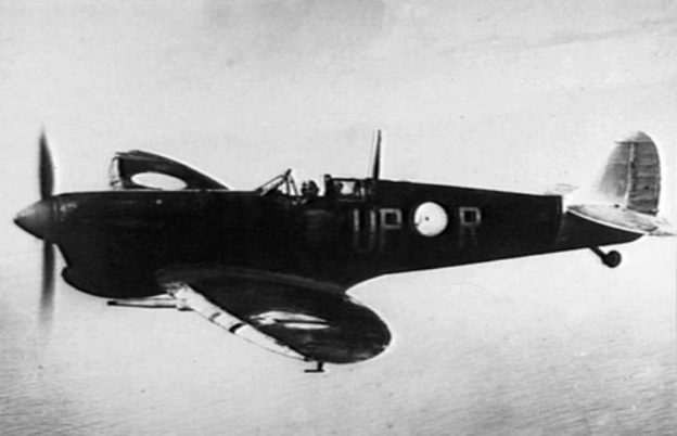 A Supermarine Spitfire VC from No. 79 Squadron RAAF over the Admirality Islands in 1944.